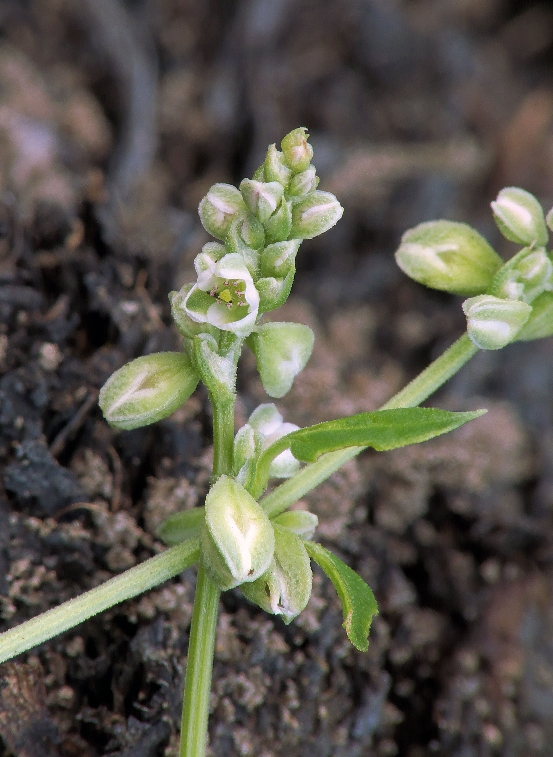 Fallopia convolvulus inflorescence